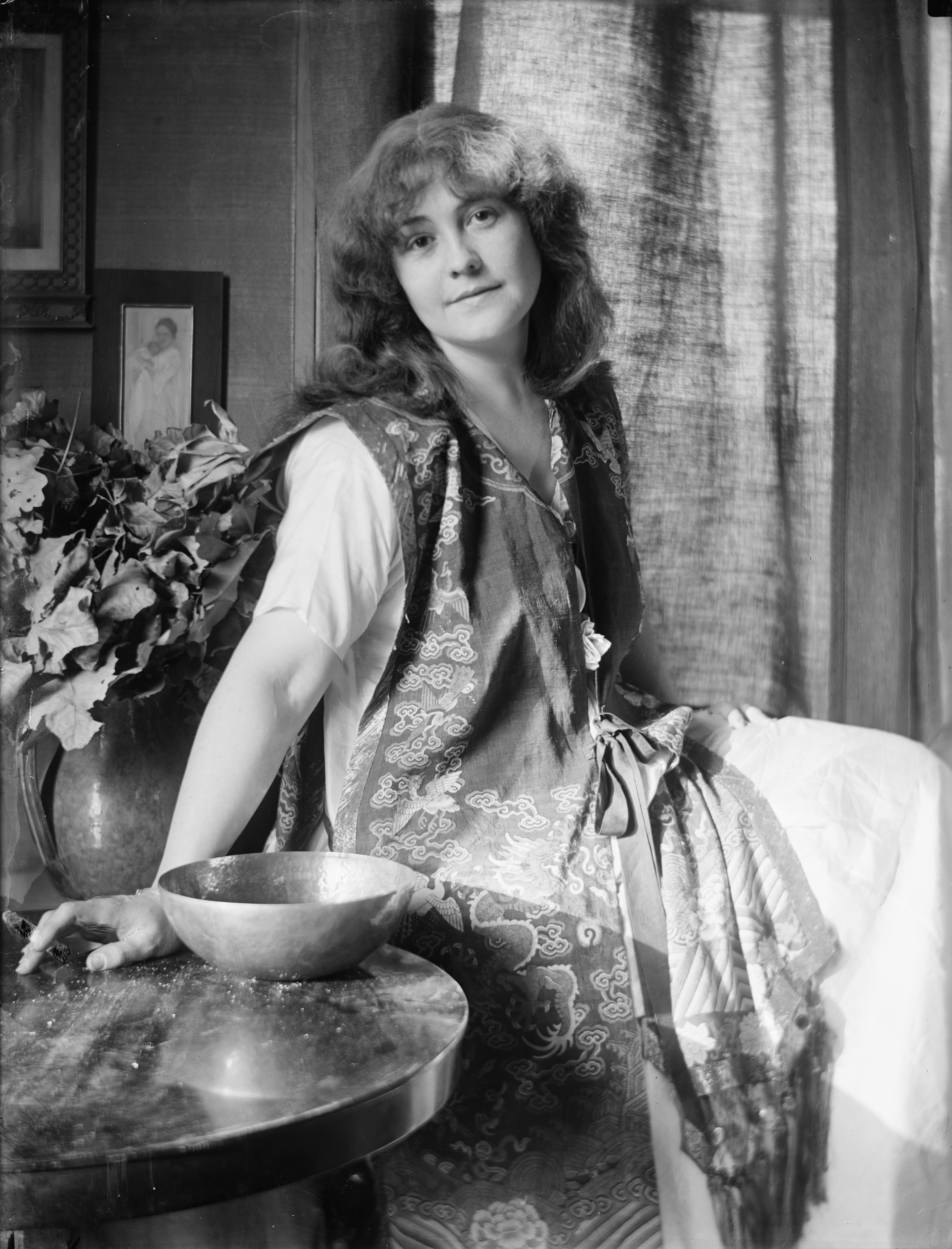 Rose O'Neill, illustrator and originator of the "Kewpie" doll, posed in Gertrude Käsebier's New York City studio.